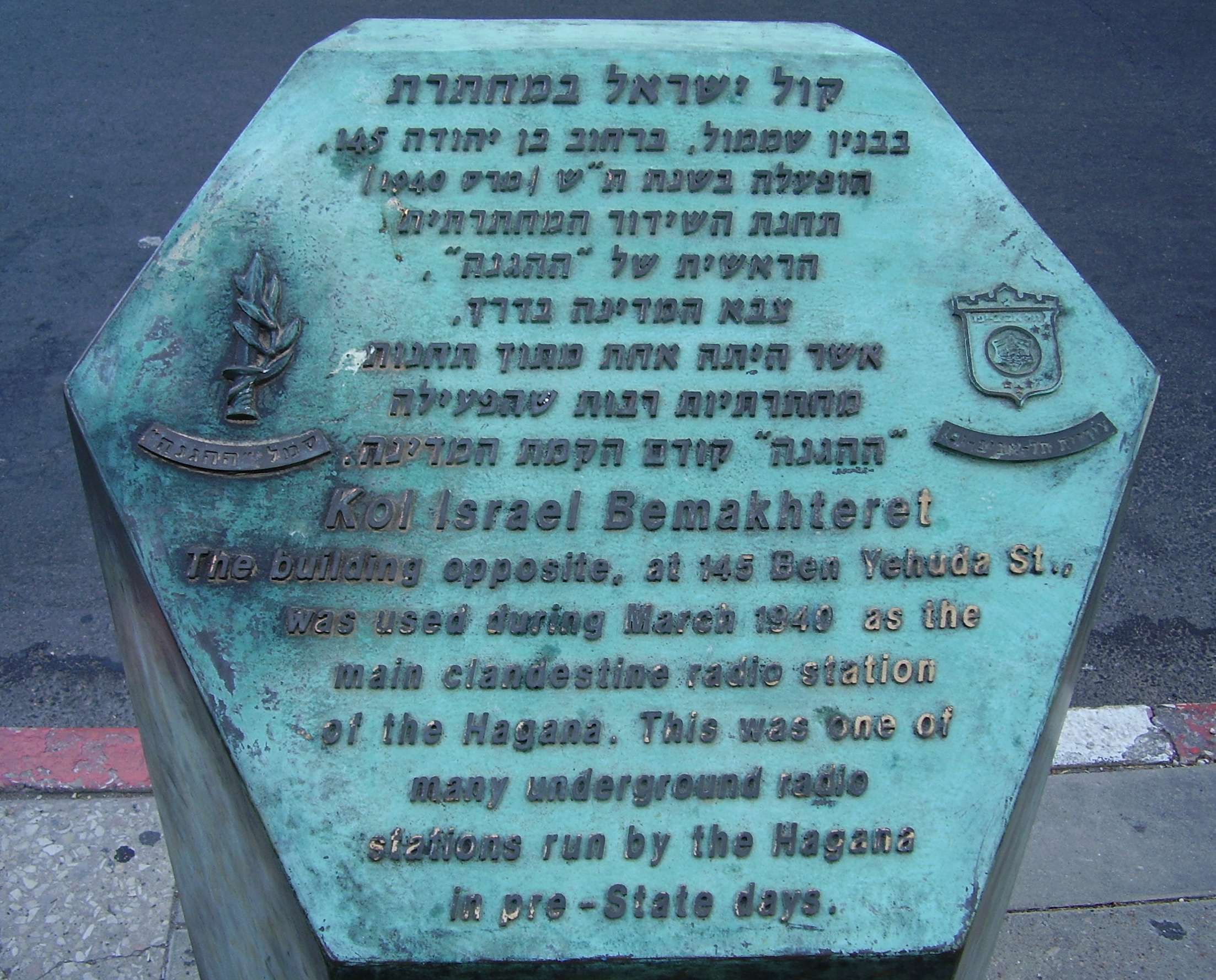 The memorial plaque opposite 145 Ben Yehuda st., Tel-Aviv, Israel – one of the "Kol Israel Bemakhteret" underground radio broadcast stations of the Hagana